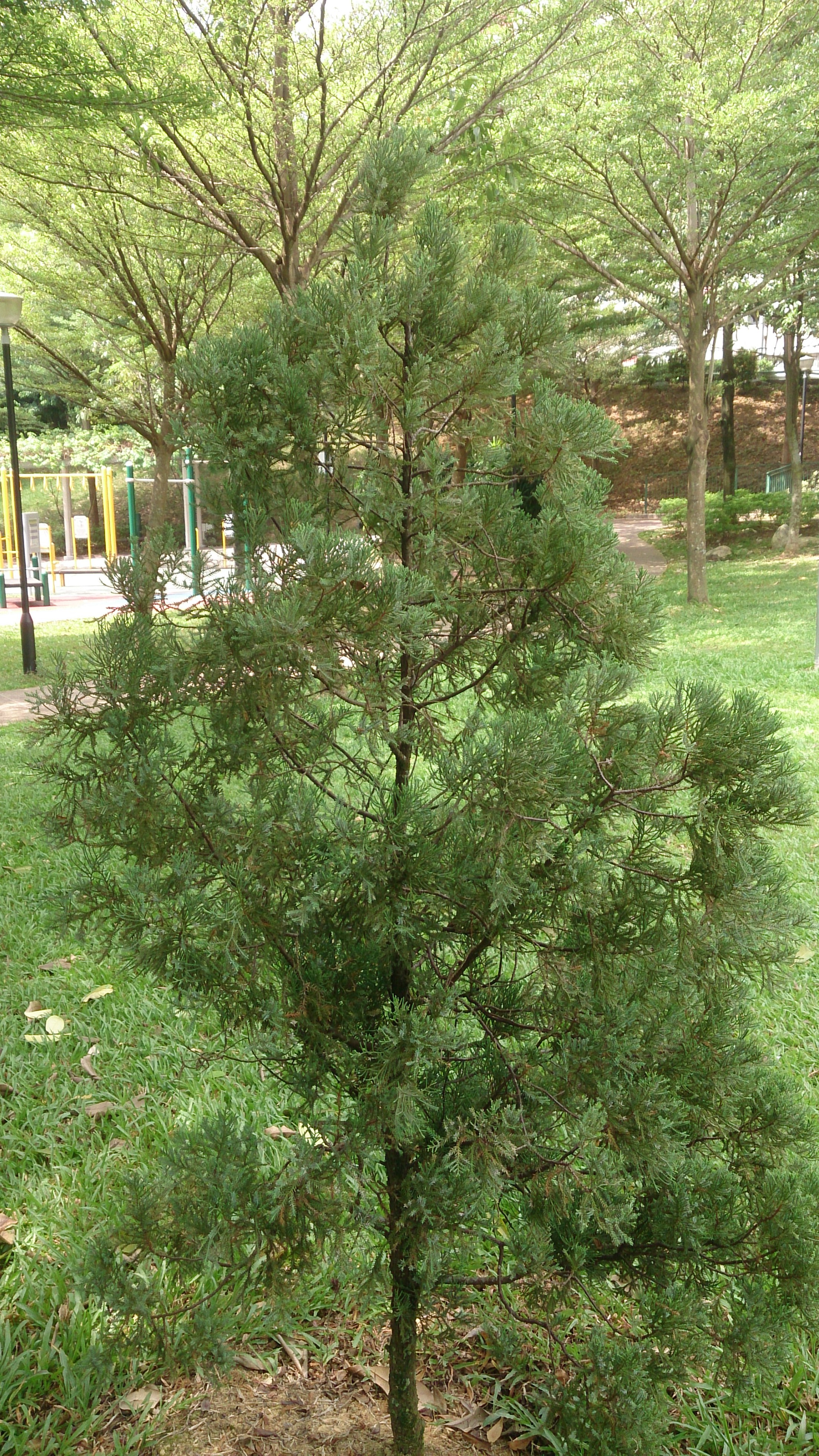 Juniperus chinensis